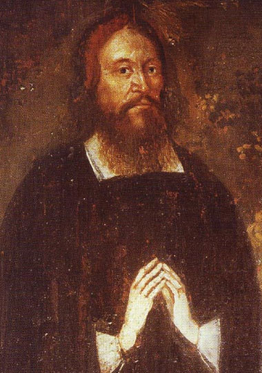 Andreas Arvidi, painting